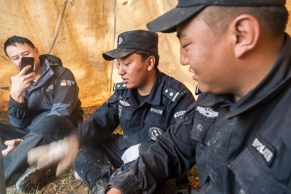 mountain scouts in Hoh Xil